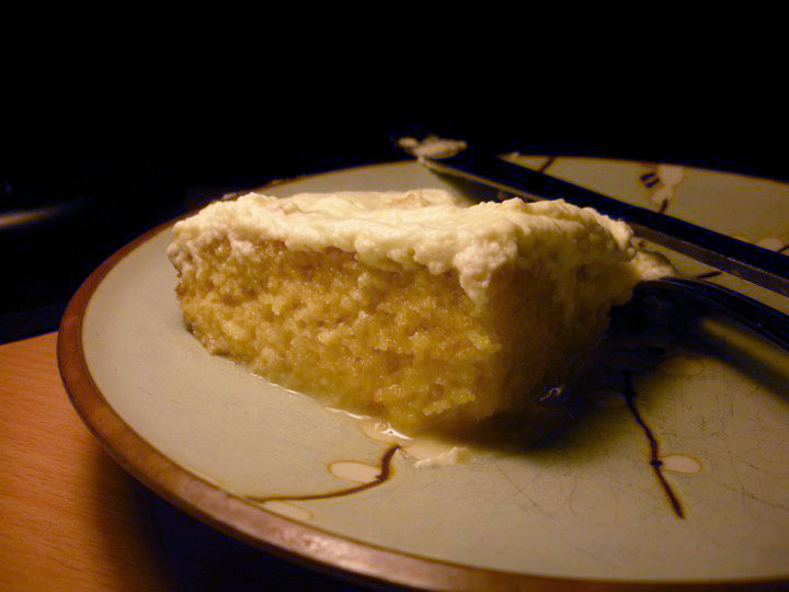 Tres Leches cake 2010